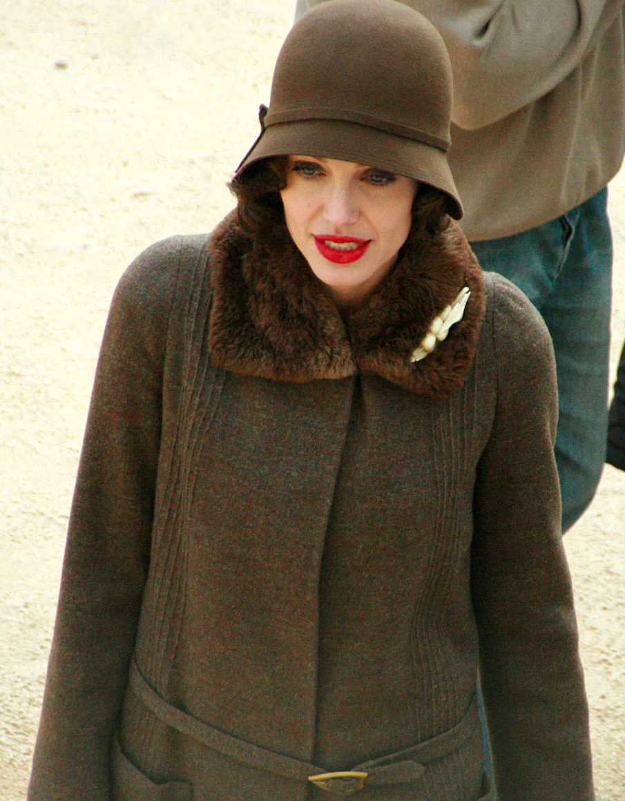 Angelina Jolie and Clint Eastwood on the set of their upcoming movie The Changeling. They were filming at City Hall today and I had the once in a lifetime opportunity to get these great shots